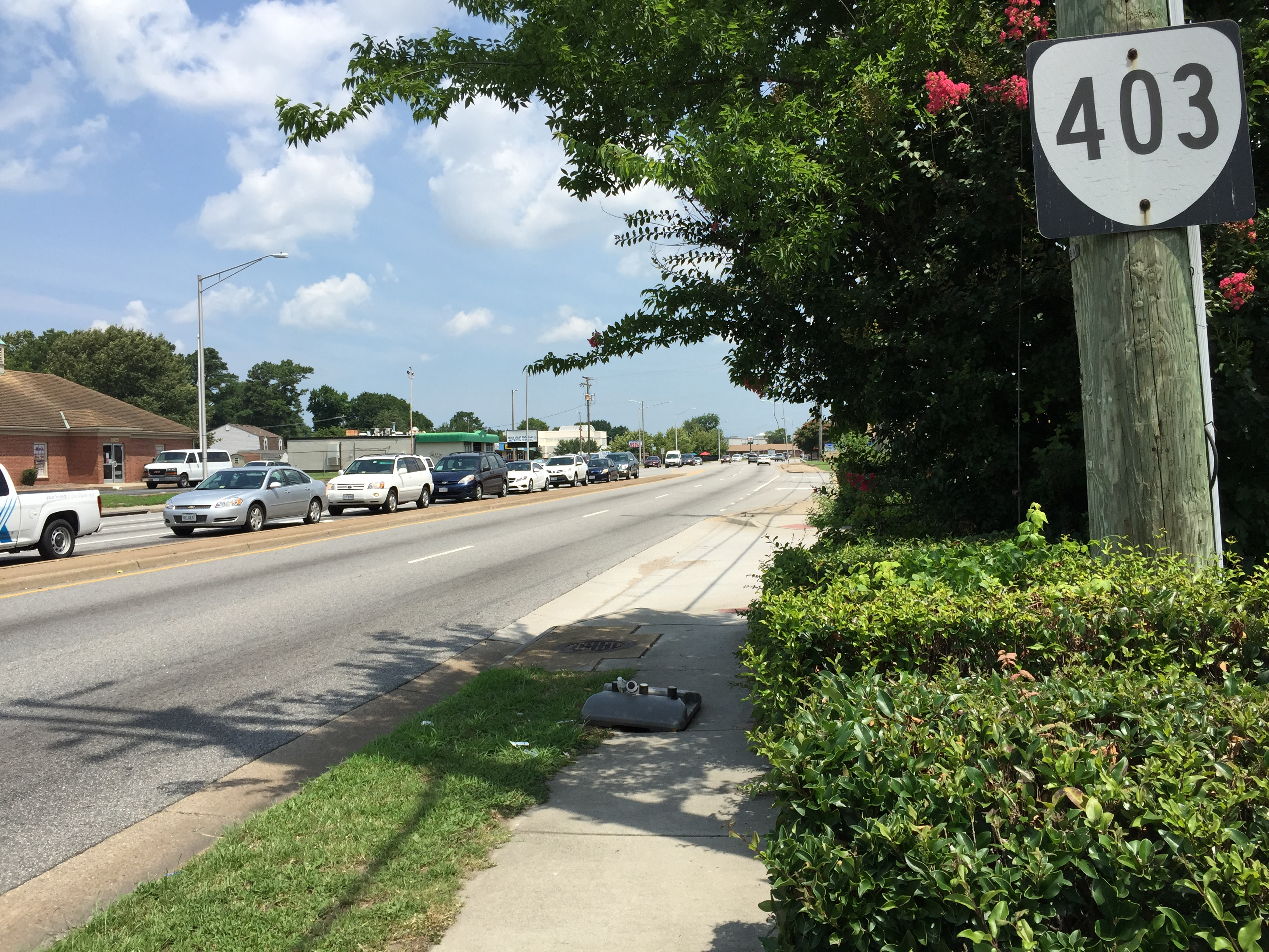 View north along Virginia State Route 403 (Newtown Road) at U.S. Route 58 (Virginia Beach Boulevard) along the border of Norfolk, Virginia and Virginia Beach, Virginia